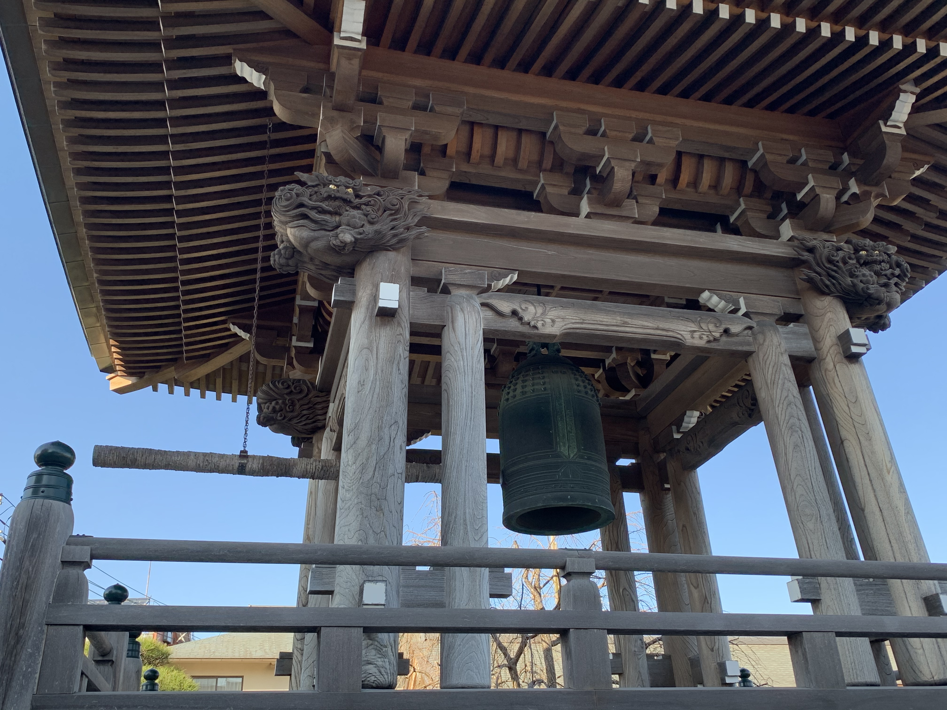 Bonshō(the bell of a Buddhist temple) of Kan-nōji Temple,Edogawa,Tokyo,Japan